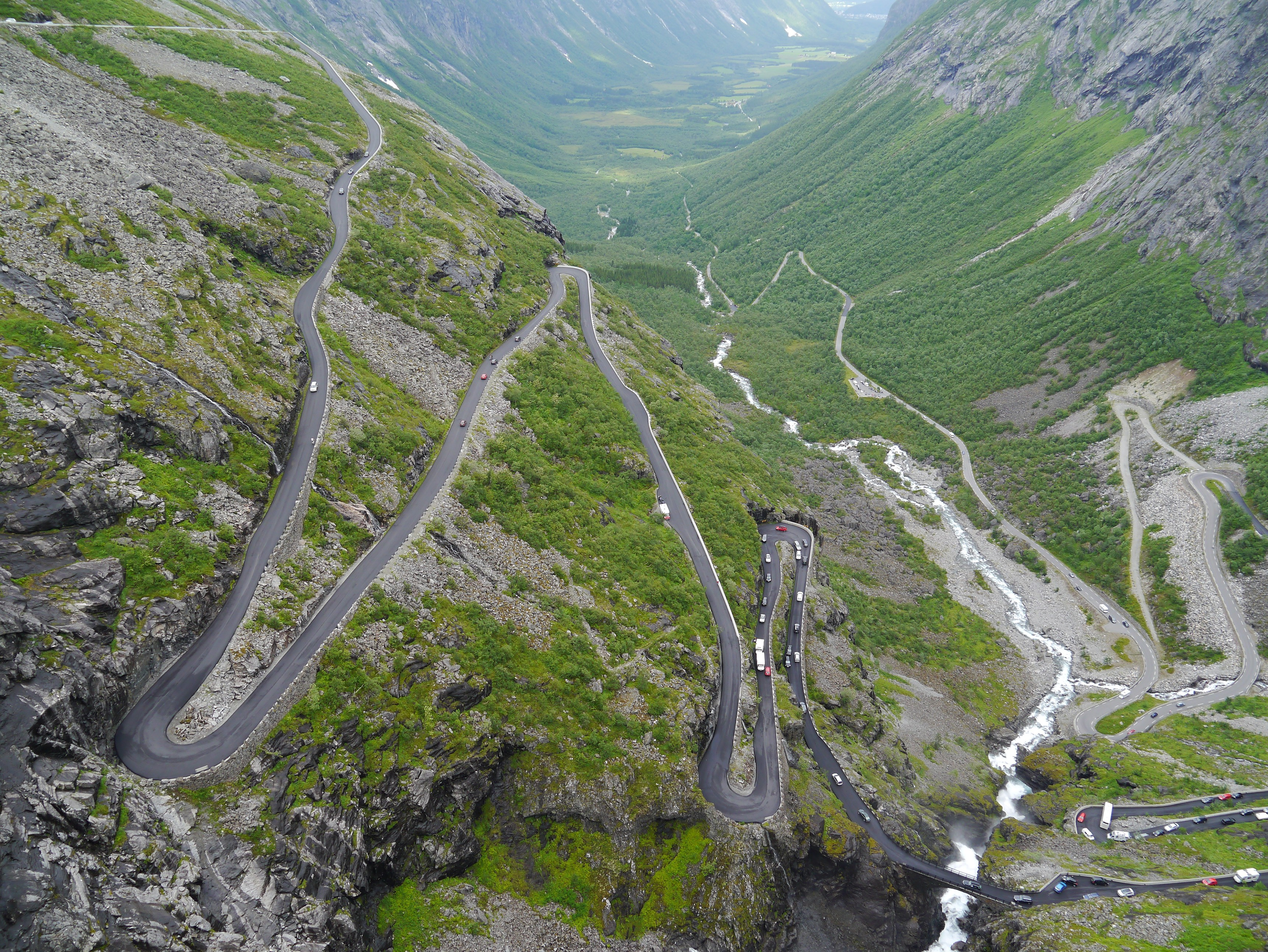 Trollstigen, Möre og Romsdal County, Central Norway